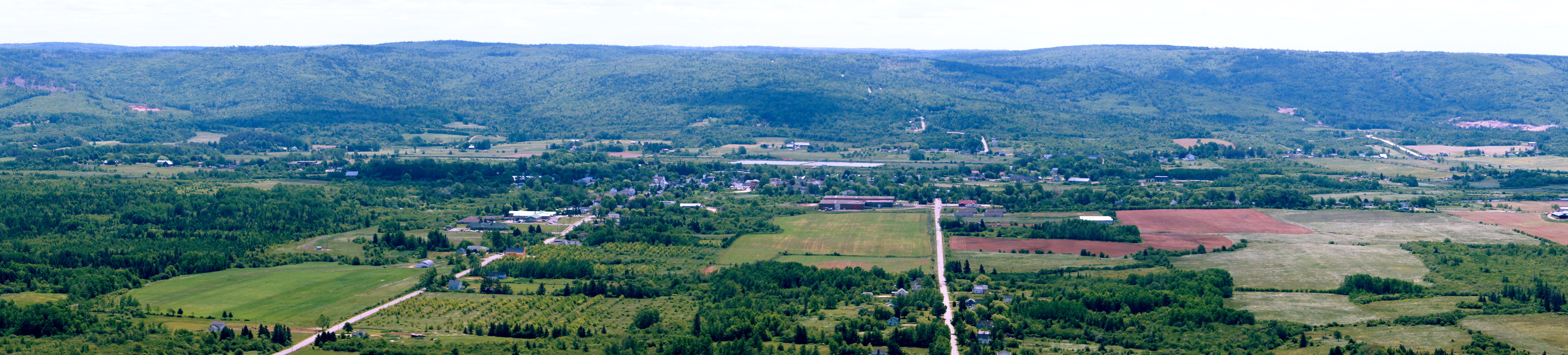 Looking over the narrowest part of the Annapolis Valley towards Bridgetown from Valleyview Provincial Park